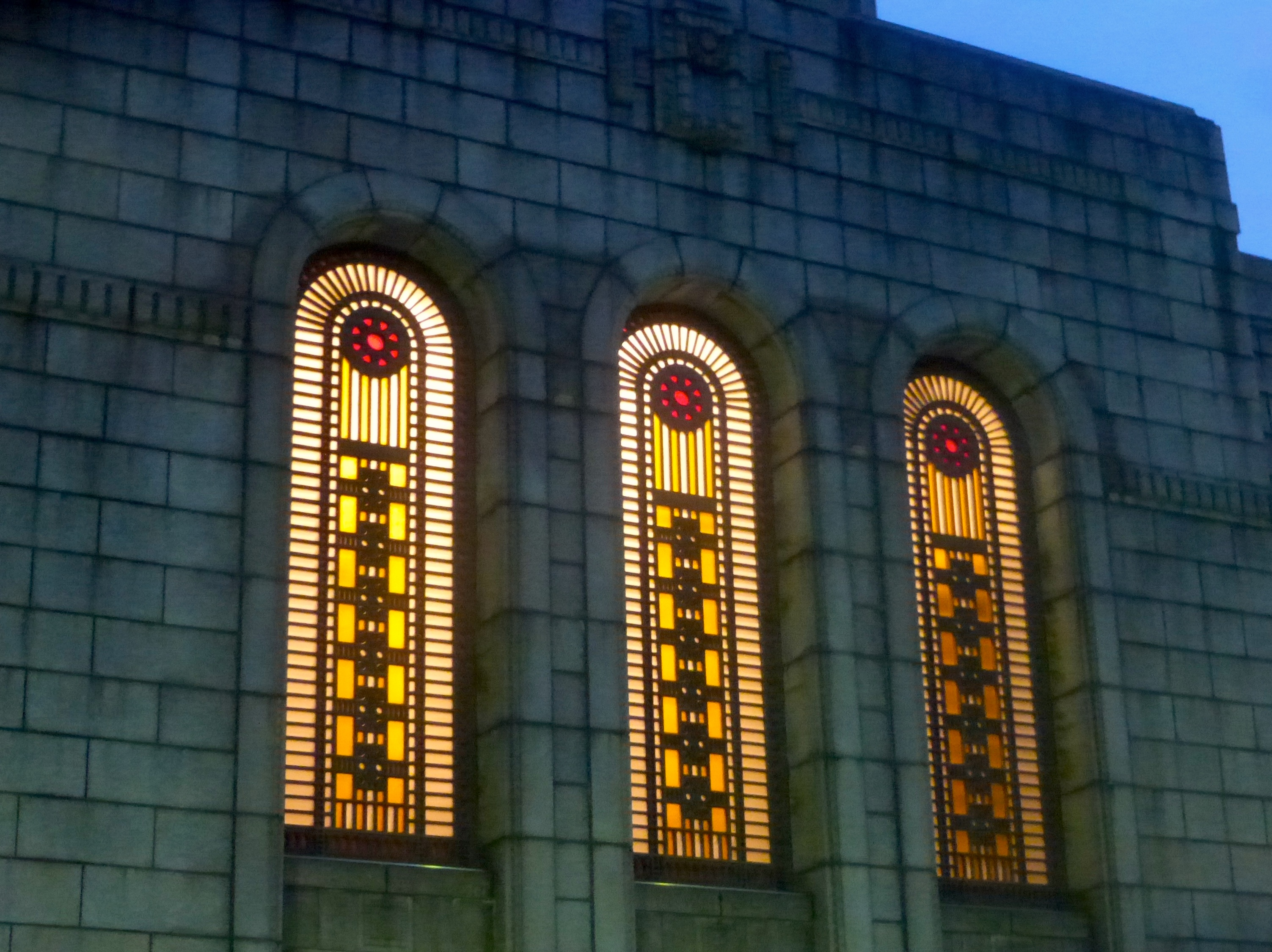 聖徳記念絵画館の外、ステンドグラス (Meiji Memorial Picture Gallery exterior, stained glass)